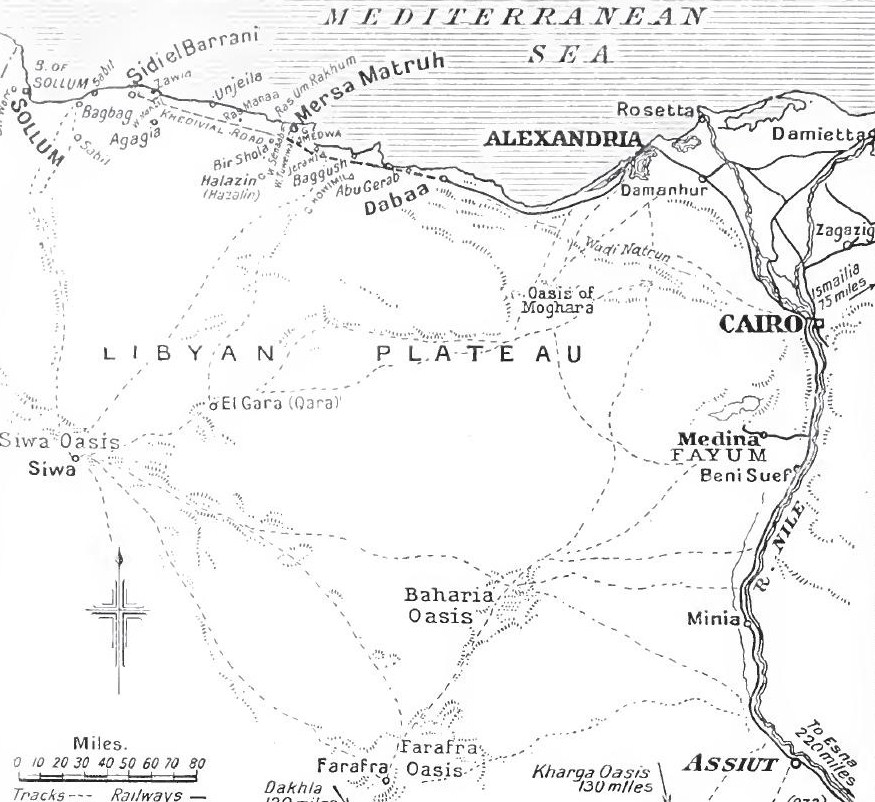 Outline map of Egypt 1914